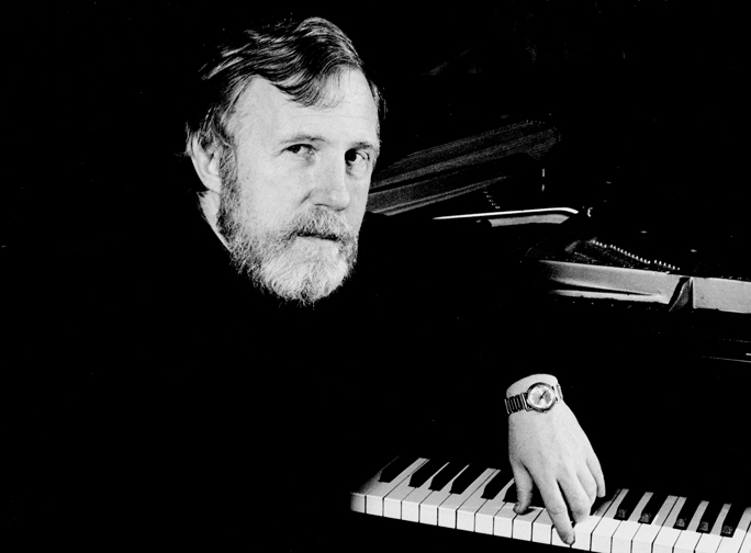 Ran Blake @ Bach Dancing & Dynamite Society Half Moon Bay CA 6/14/1987. Photo by Brian McMillen /